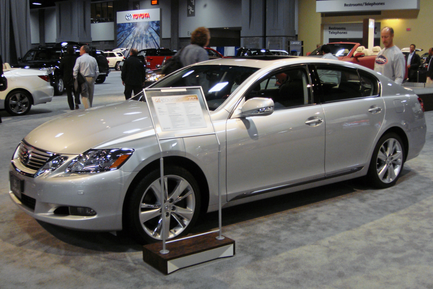 2010 Lexus GS 450h Hybrid at the 2010 Washington Auto Show